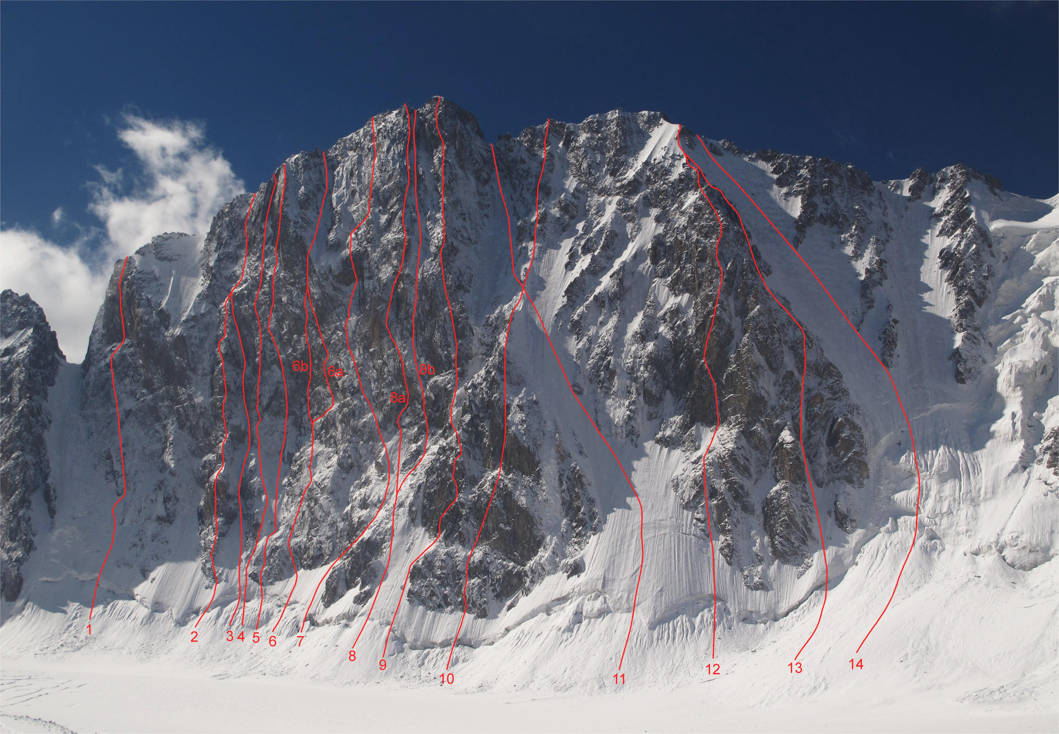 Routes on north face of Free Korea peak: 1) Balezin 1991, 5B 2) Schvab 1982, 5B 3) Balezin 2000, 6A 4) Studenin 1966, 6A 5) Kustovskiy 1969, 6A 6a) Semiletkin 1988, 6A 6b) Mikhailov 1999, 6A 7) Popenko 1975, 6A 8a) Bezzubkin 1969, 6A 8b) Ruchkin 1997, 6A 9) Myshlyaev 1961, 5B 10) Bagaev 1974, 5B 11) Barber 1976, 5B 12) Balezin 1994, 5B 13) Andreev 1959, 5A 14) Lowe 1976, 5A Resources: 14 marshrutov po Severnoy stene pika Svobodnaya Koreya (in russian). mountain.ru. Retrieved on 18 July 2016. Svobodnaya Koreya (in russian). . risk.ru. Retrieved on 18 July 2016. Novye marshruty na Severnoy stene Svobodnoy Korei (in russian). mountain.ru. mountain.ru. Retrieved on 18 July 2016.